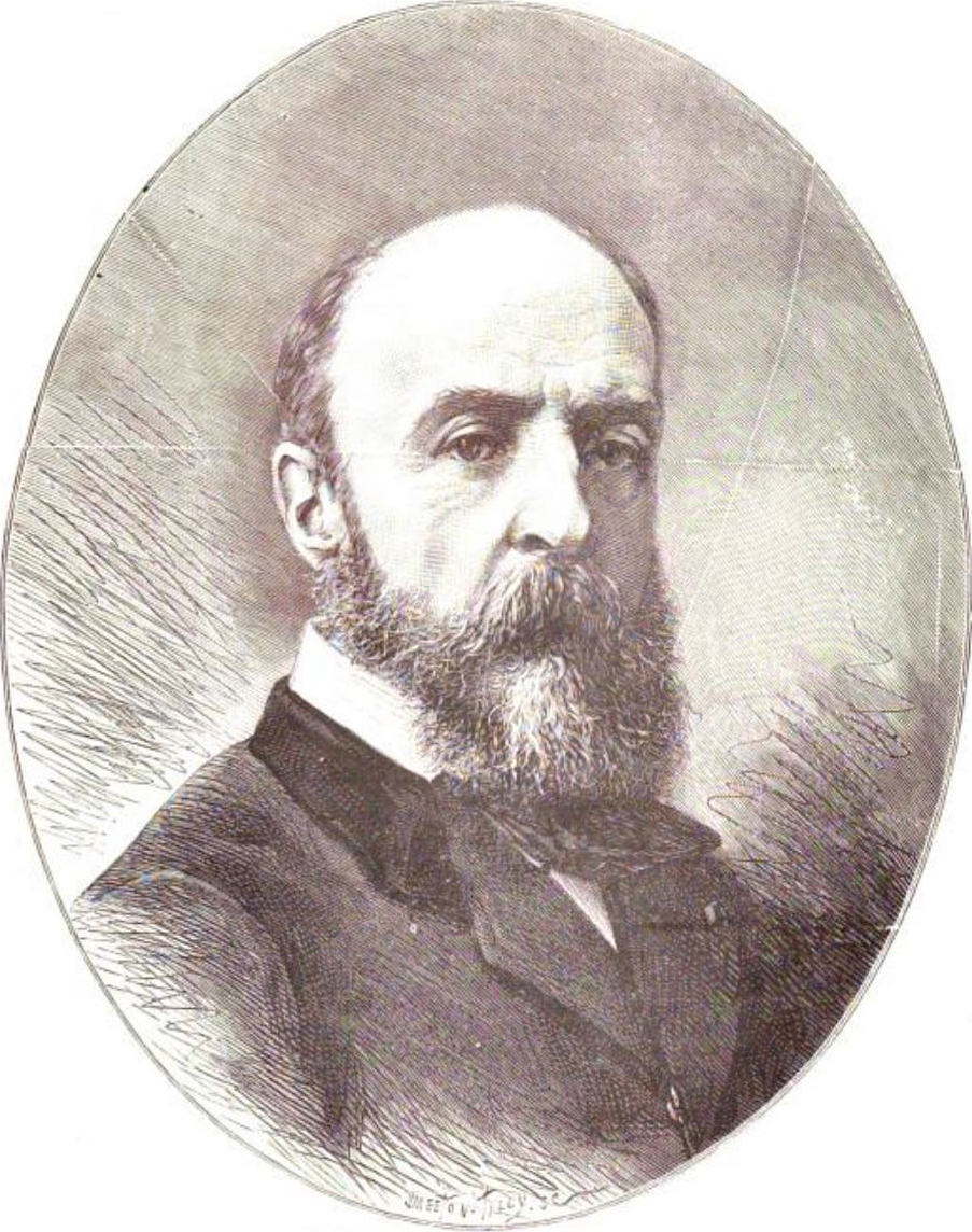 Eugène Fromentin (1820 – 1876), French painter and writer